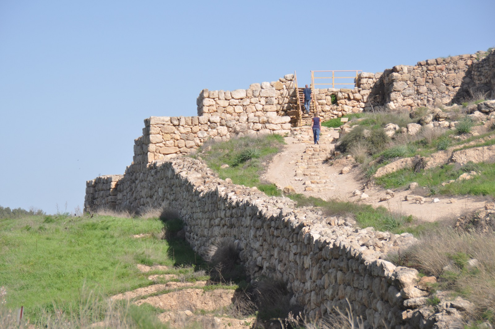 Geography of Israel